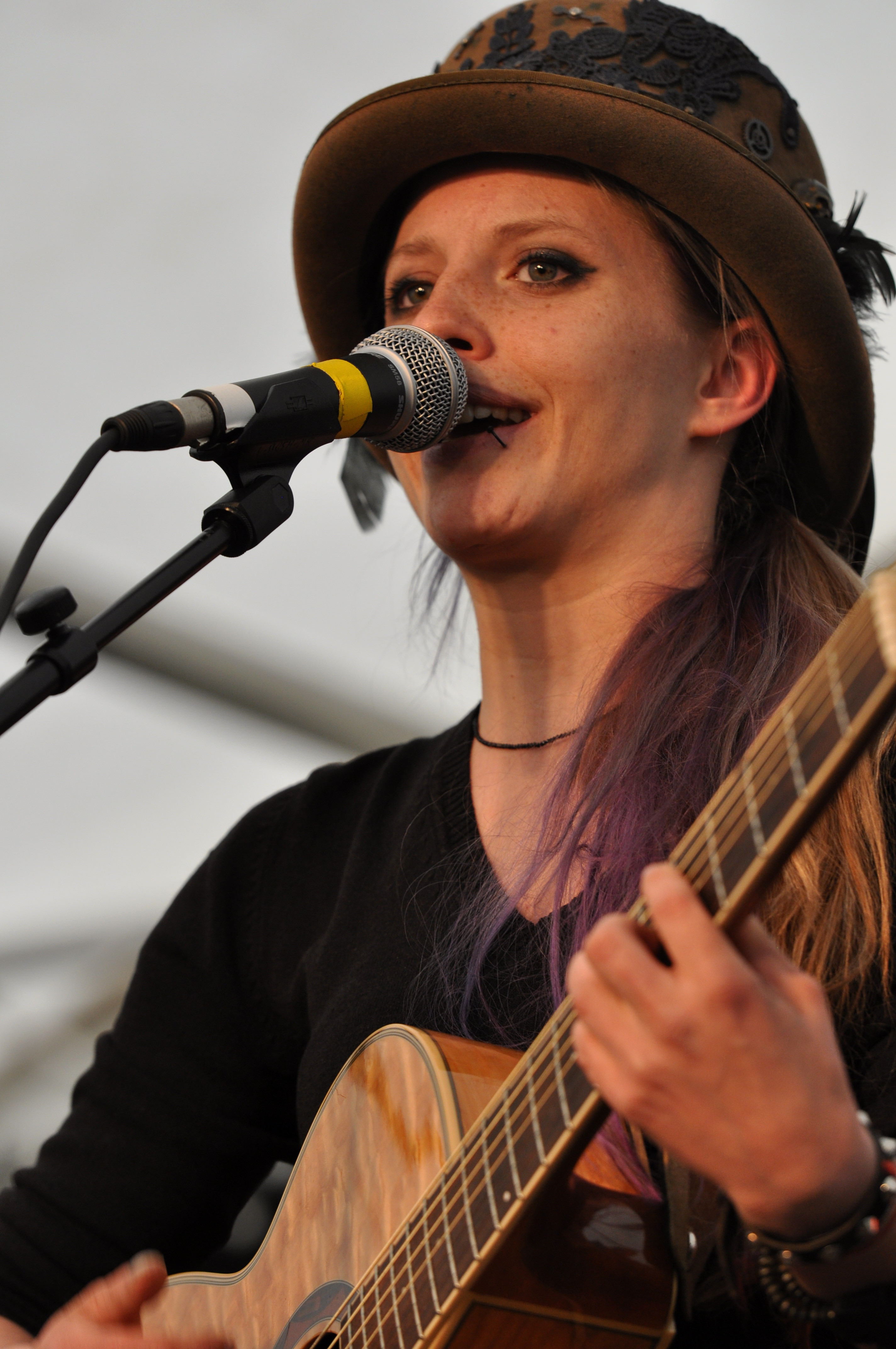 Cynthia Nickschas and Band at the 2016 song festival at Waldeck castle, Dorweiler, Rhineland-Palatinate, Germany Festivalsommer This photo was created with the support of donations to Wikimedia Deutschland in the context of the CPB project "Festival Summer".